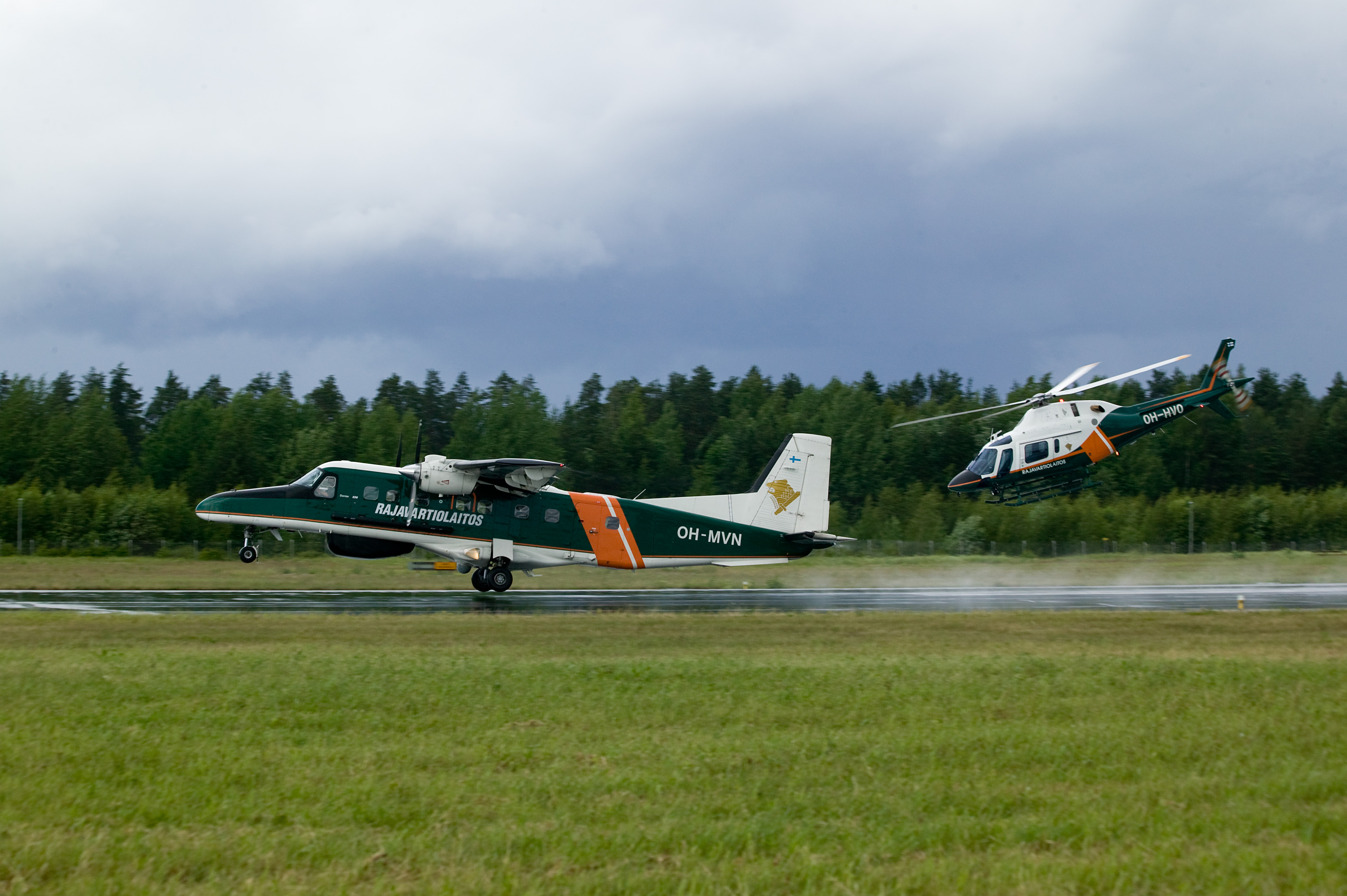 Dornier Do 228 and Agusta A119 Koala during Lappeenranta airshow 2013.